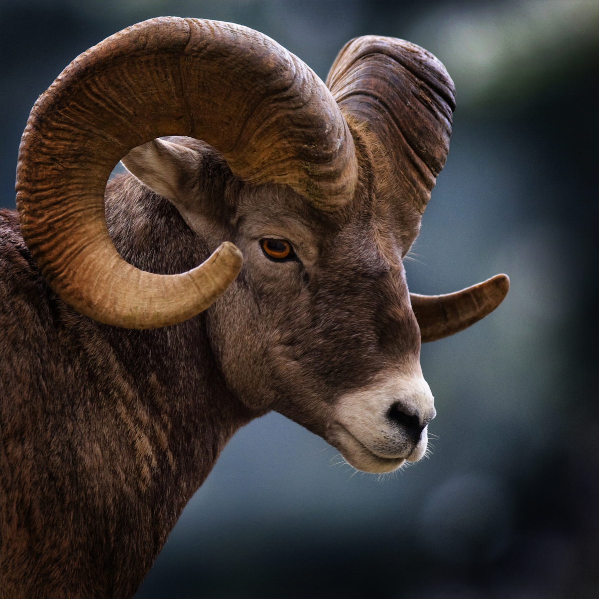 Bighorn sheep in Montana, USA.